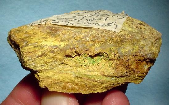 Bindheimite, Limonite Locality: Garfield District, Mineral County, Nevada, USA (Locality at ) Size: 7.2 x 4.4 x 2.9 cm. An old-time, specimen of layered, yellow bindheimite, brown limonite and quartz with an at-the-time-UNKNOWN green mineral in a vug on the front. Bindheimite is RARE from the famous Garfield District of Mineral County, Nevada, especially in such richness. Accompanying label identifies the green mineral as erinite. There is no such mineral as "erinite" (Erinite is a synonym of Chalcophyllite). It is now a discredited species name. Someone may find this of historic interest here on this old specimen! Ex. George Elling Collection.